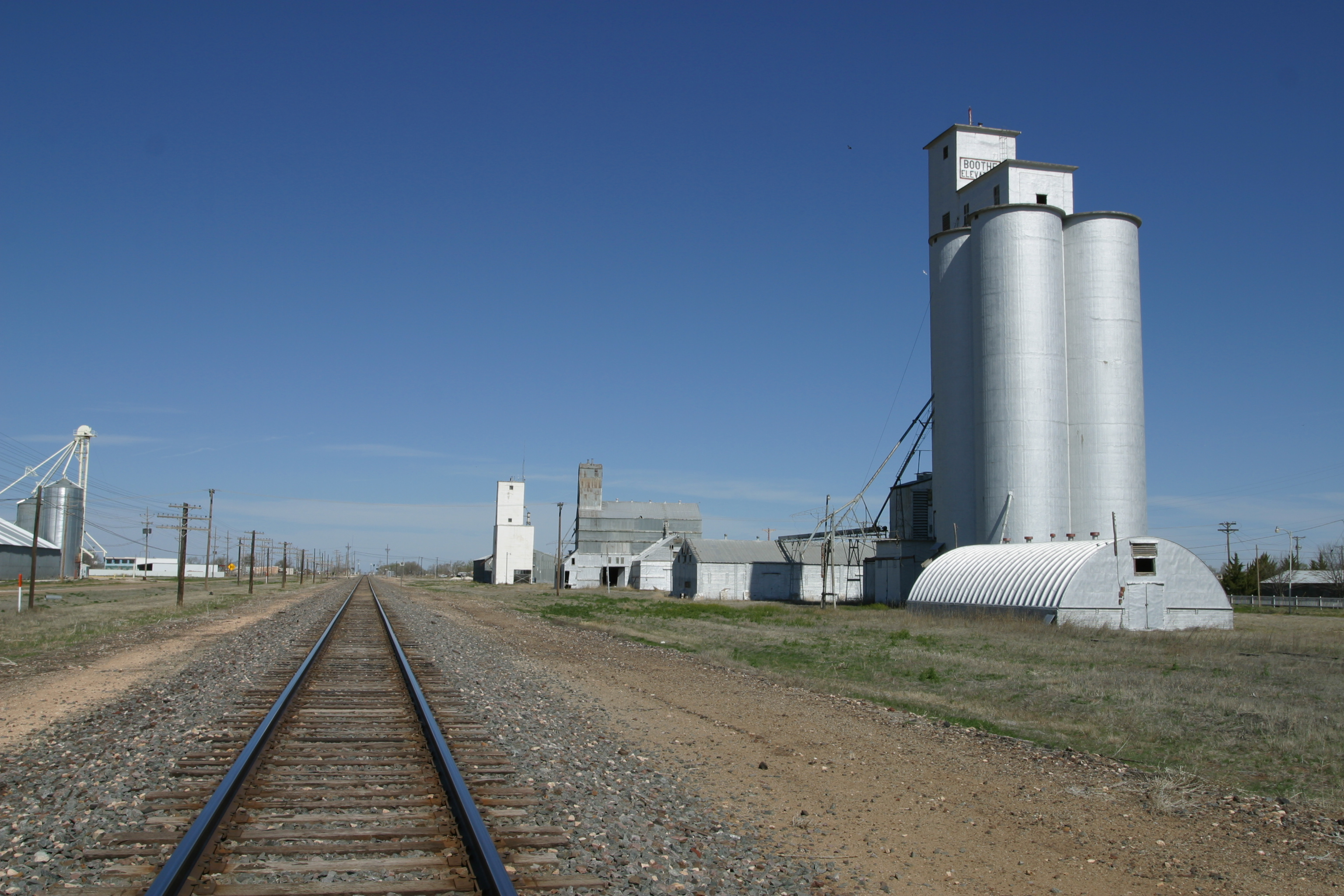 Boothe Elevators and BNSF railway on the southwest side of Anton, Texas.